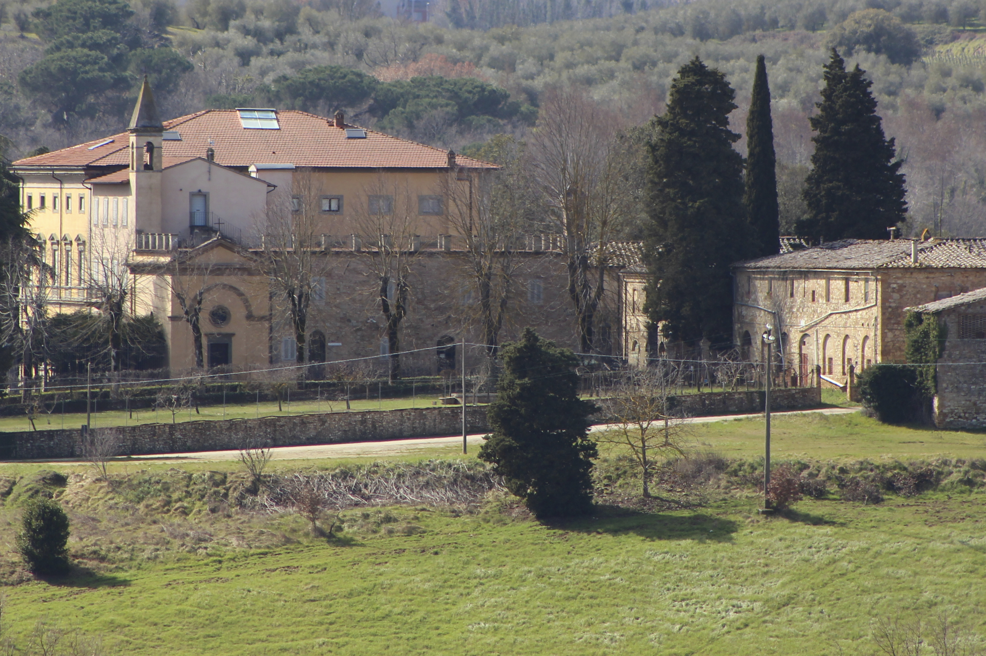 Villa di Monaciano, Ponte a Bozzone, Castelnuovo Berardenga, Province of Siena, Tuscany, Italy